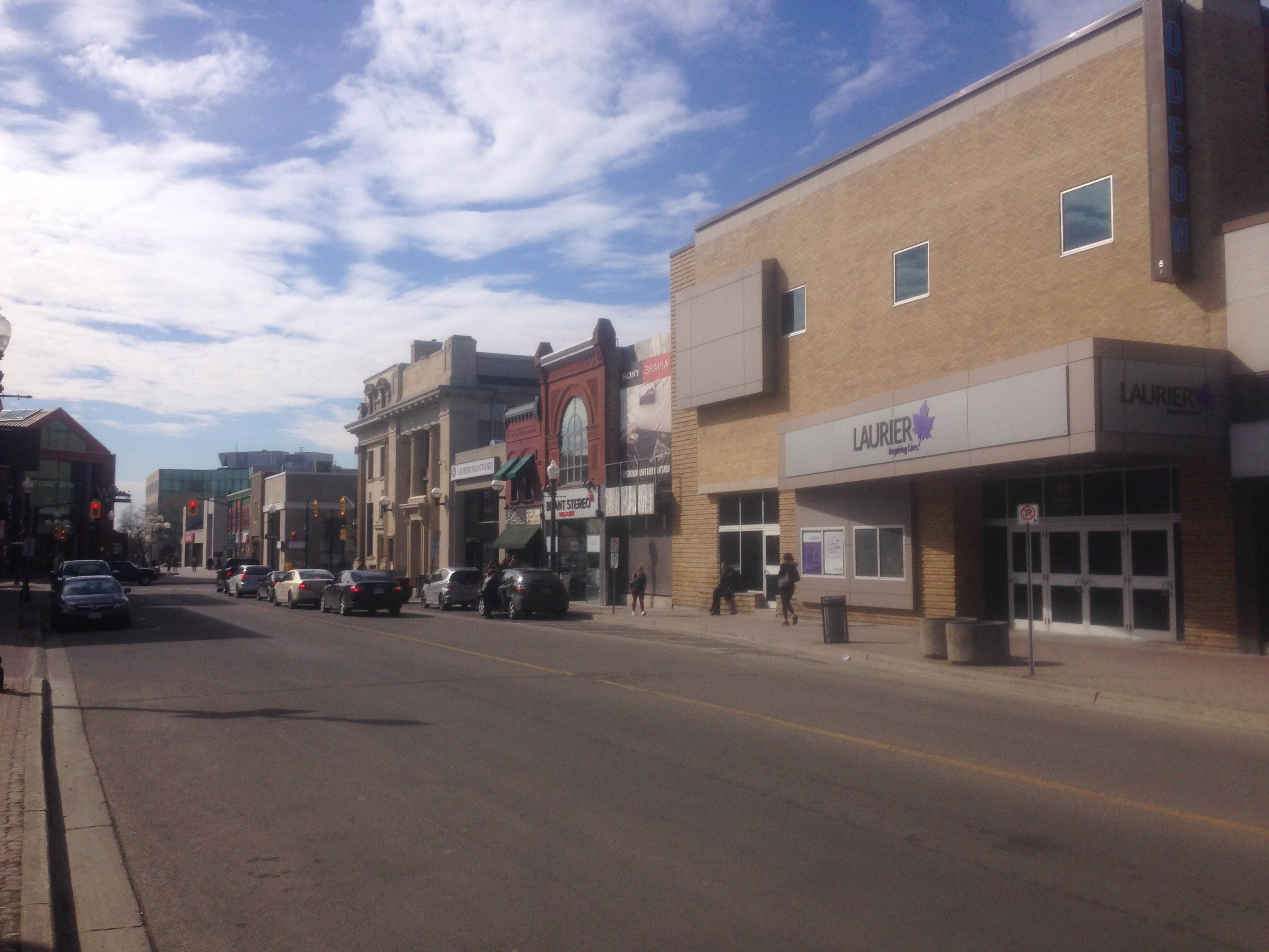 Laurier Brantford's Odeon Building (in foreground) on Market Street in downtown Brantford, Ontario.